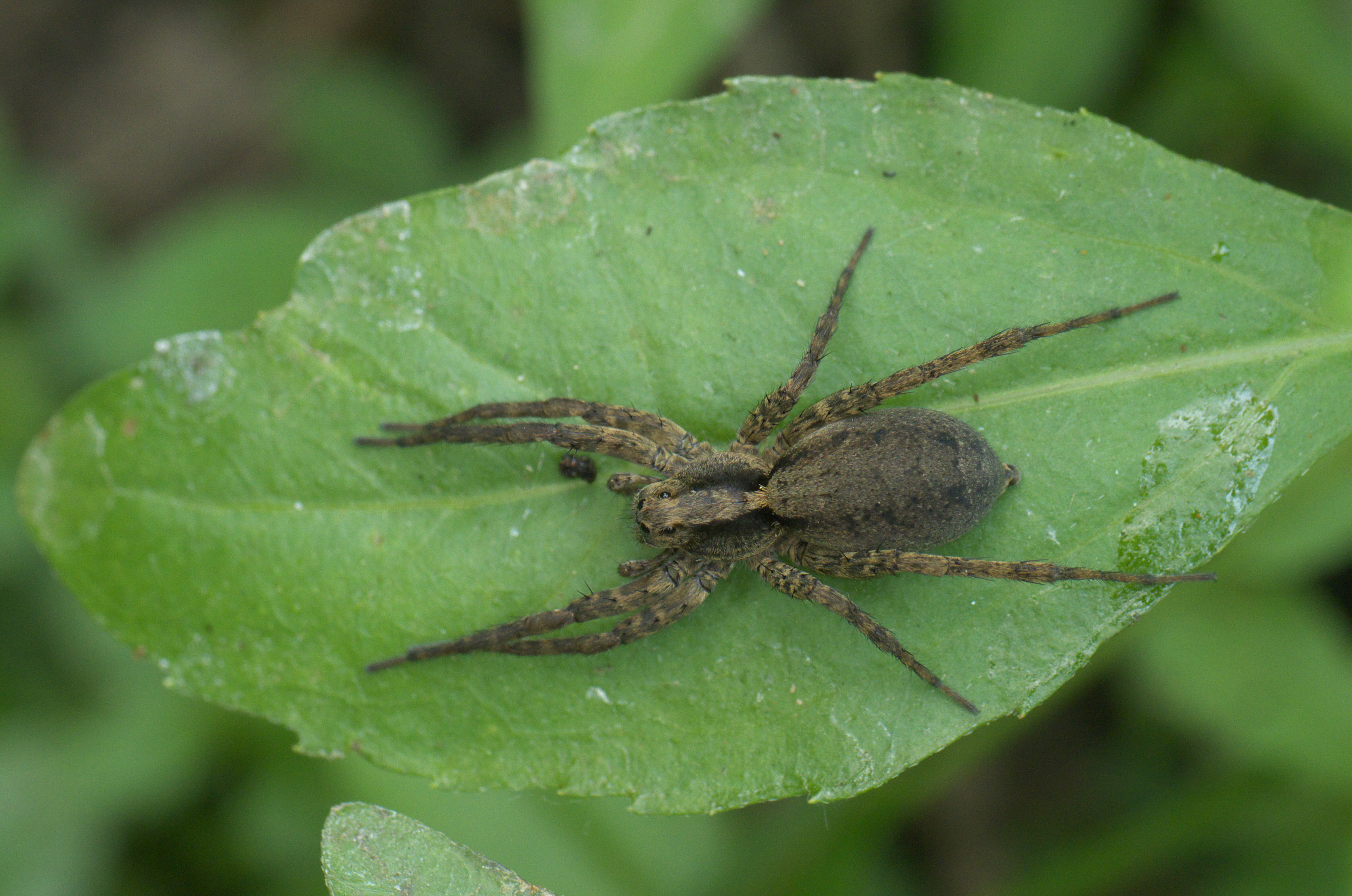 Alopecosa, Family: Wolf Spiders, ID Confidence: 98